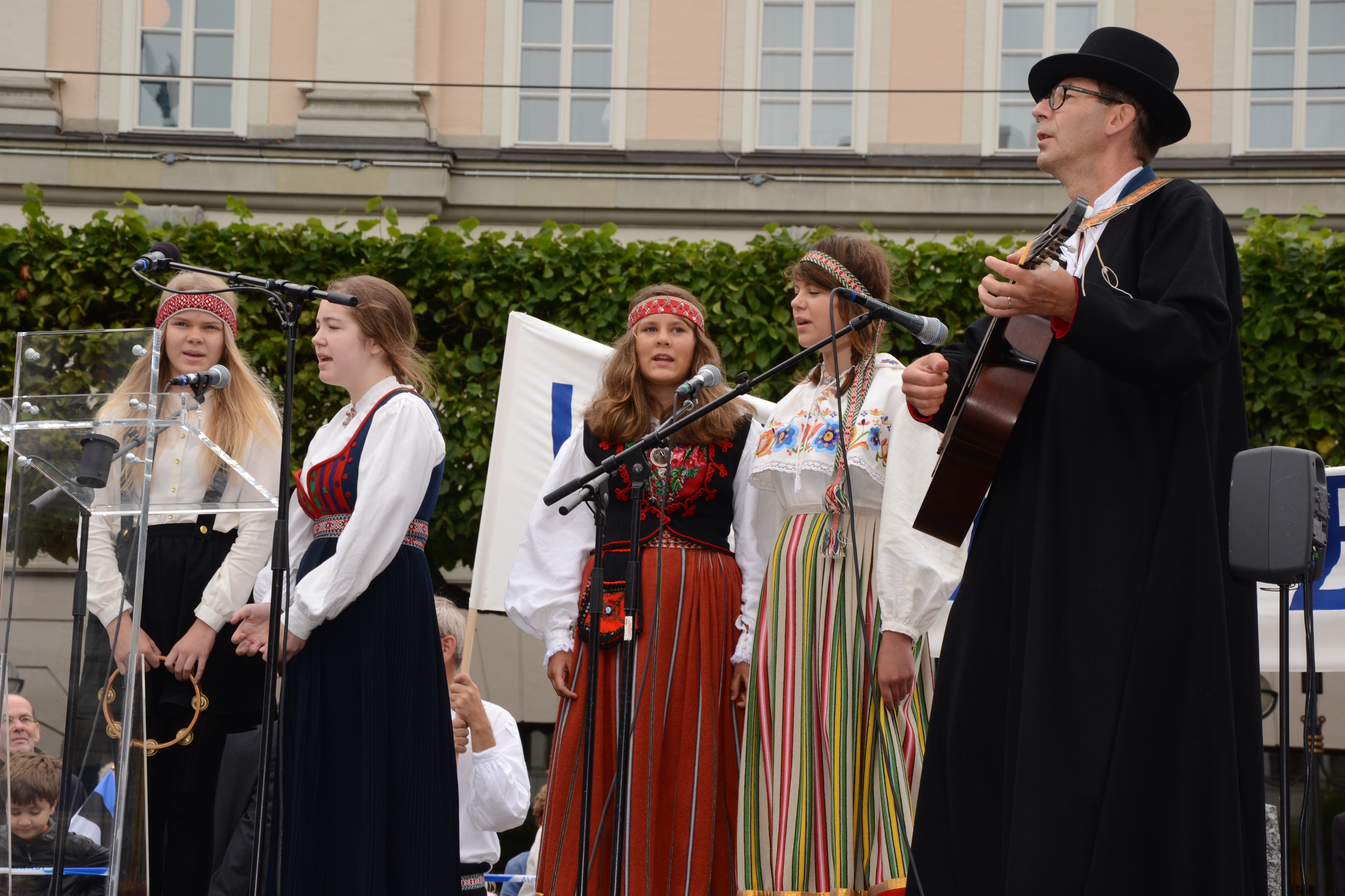 Estonian School in Stockholm playing music. Celebration of Baltic Year 2011, in Stockholm.